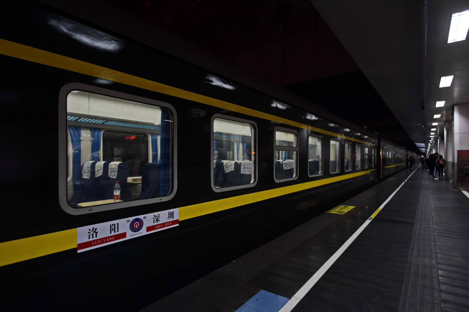 K535 train had just arrived at Shenzhen Railway Station and was stopping at Platform 3.